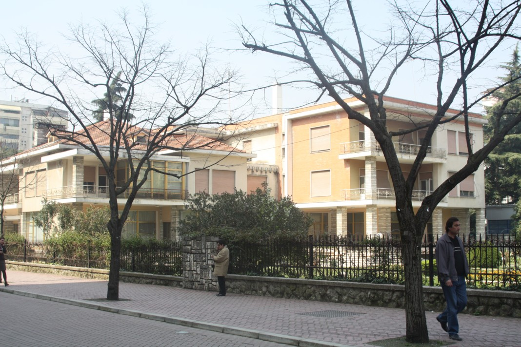 Enver Hoxha's House in Tirana, Albania